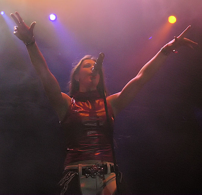 Floor Jansen from After Forever during Masters of Rock 2007 festival